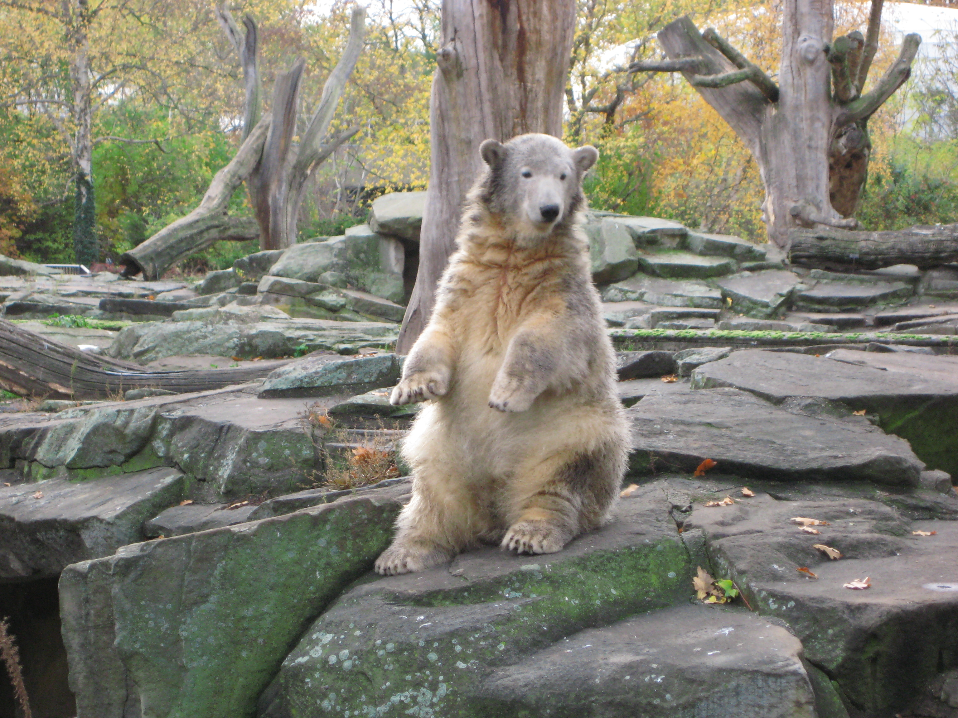 Polar bear Knut at the age of 10 months (Zoo of Berlin)